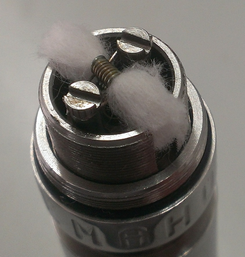 Open coil of a electronic cigarette